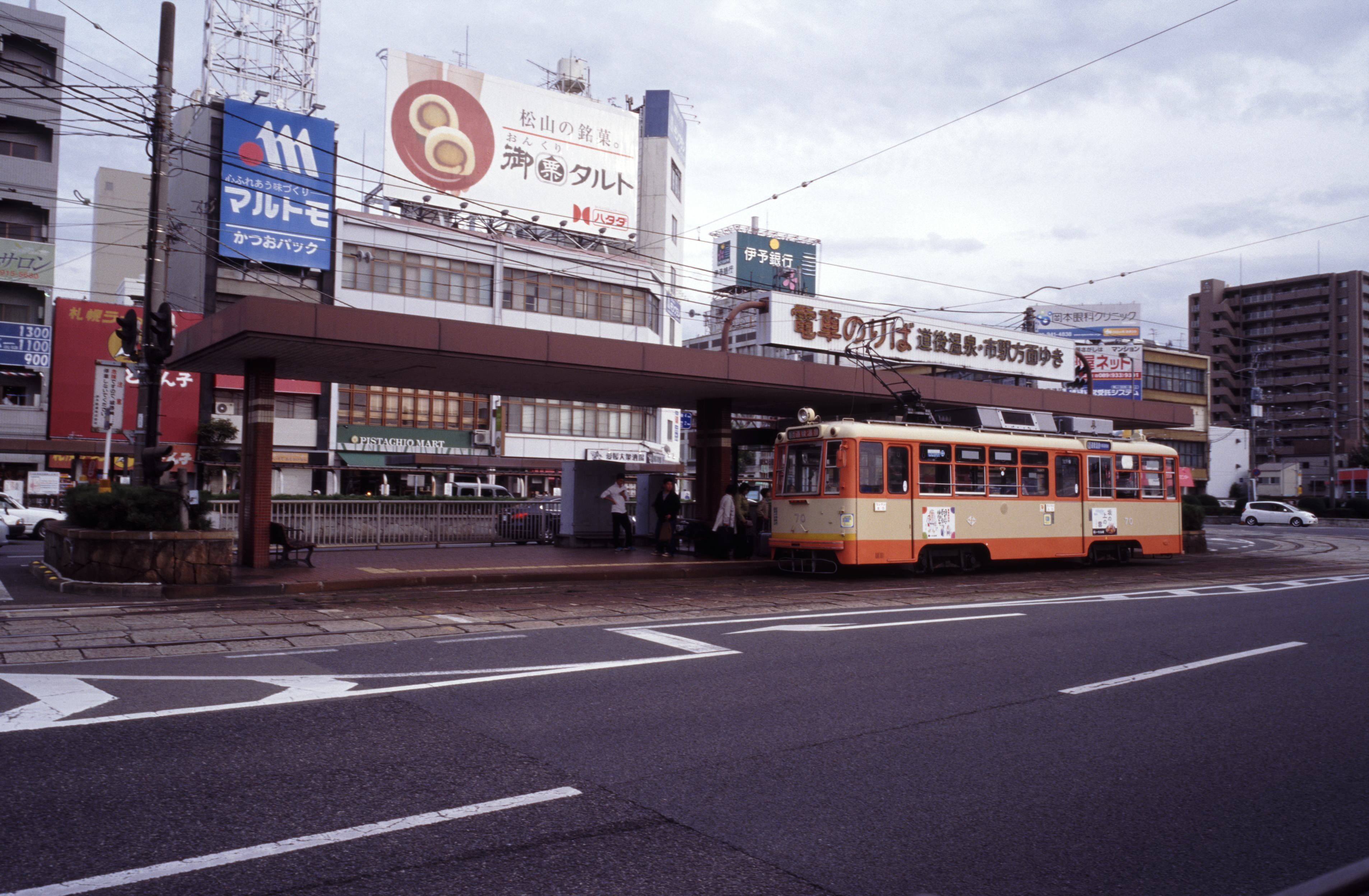 Matsuyama Ekimae Station in Matsuyama, Ehime Prefecture, Japan.